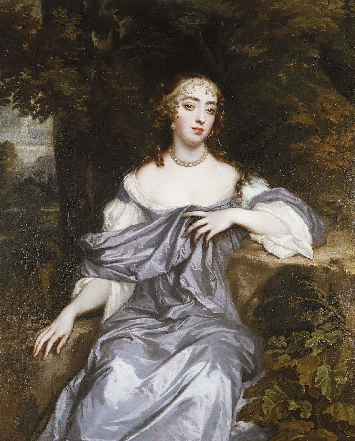 Frances Brooke, Lady Whitmore was the daughter of Sir William Brooke. By 1665 she had married Sir Thomas Whitmore. Her sister was Margaret Brooke, Lady Denham, mistress to the Duke of York, who was also painted by Lely for the Windsor Beauties series.